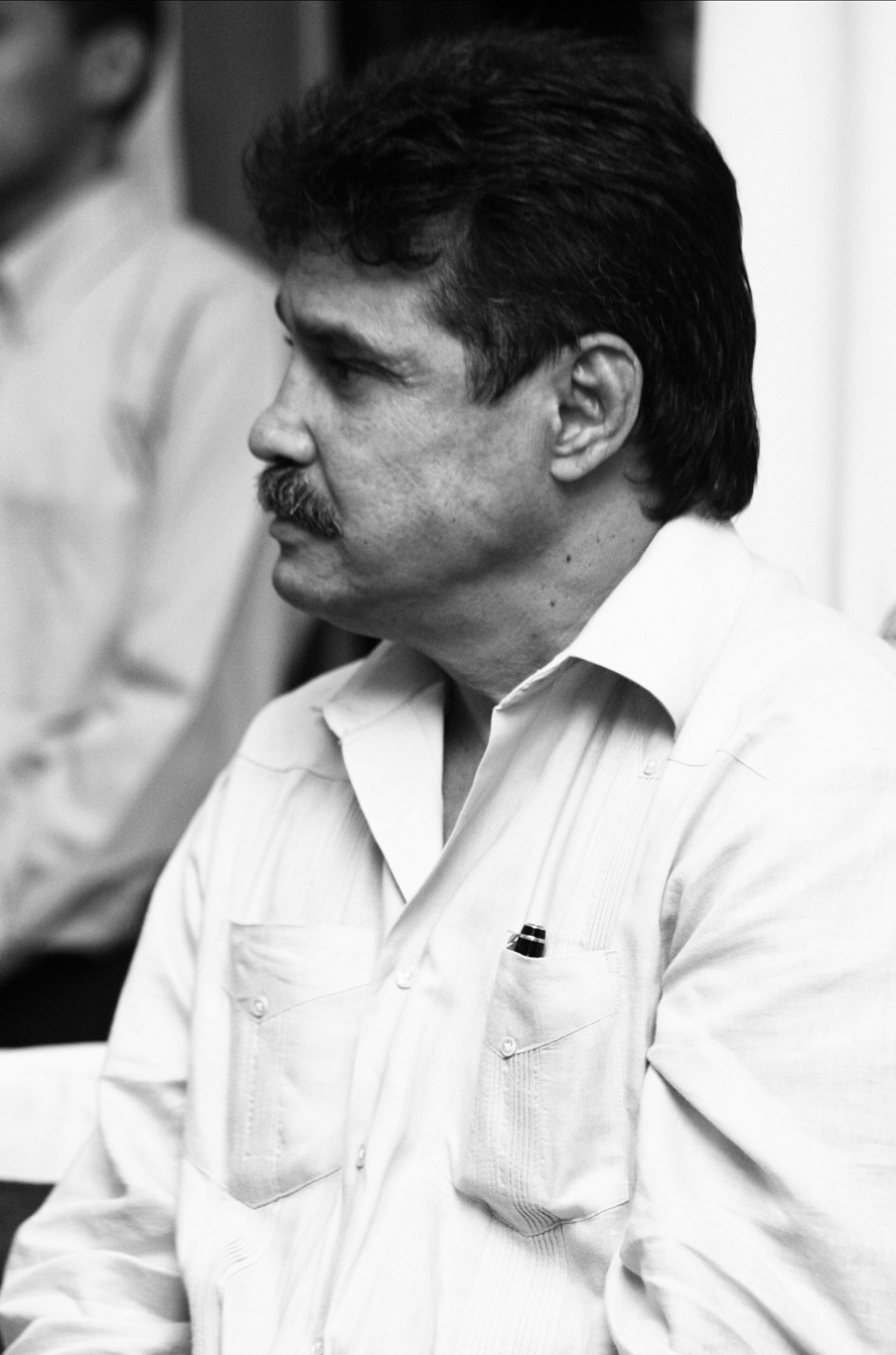 Nicaraguan boxer Alexis Argüello